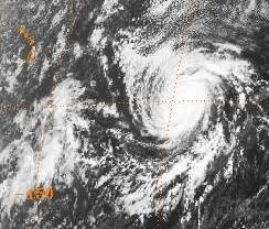 Hurricane Marie at peak strength on 1990-09-11